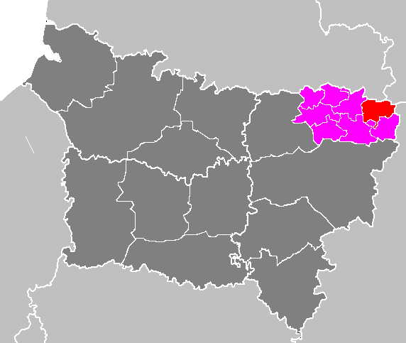 Maps of arrondissements and cantons of France: Arrondissement de Vervins - Canton d Hirson.PNG